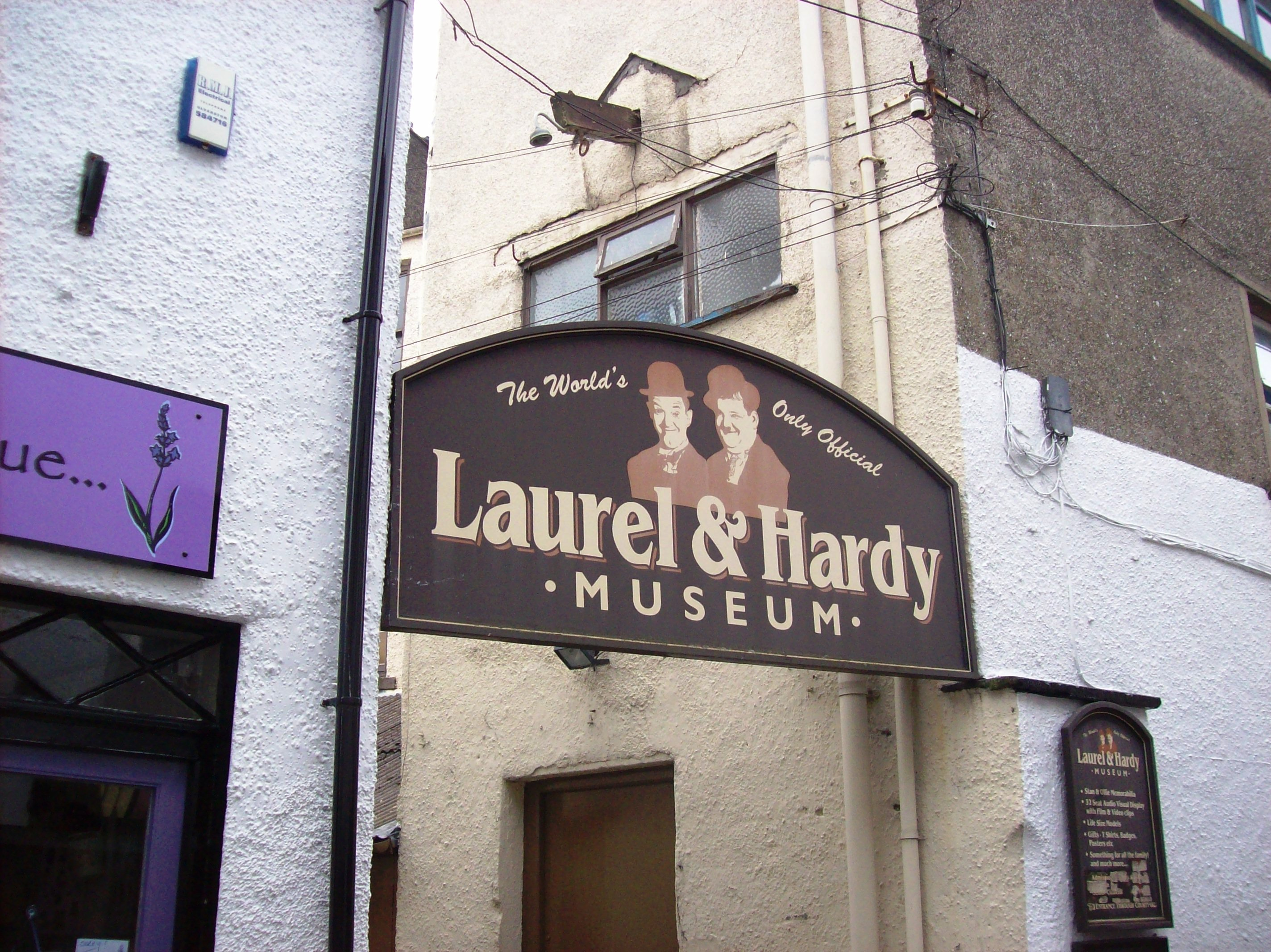 The Laurel & Hardy Museum in Ulverston, the only one of its kind in the world.